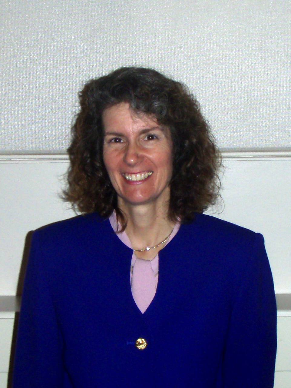 Amanda Fritz, two time candidate for City Council in Portland, Oregon, United States. At a City Club-sponsored debate at the Governor Hotel.